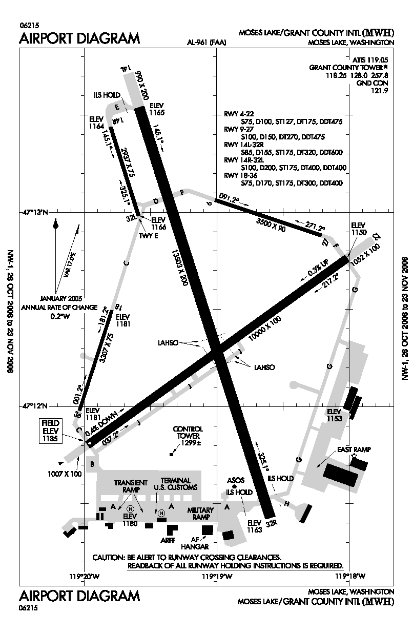 FAA airport diagram for MWH (Grant County International Airport) in Washington, United States.